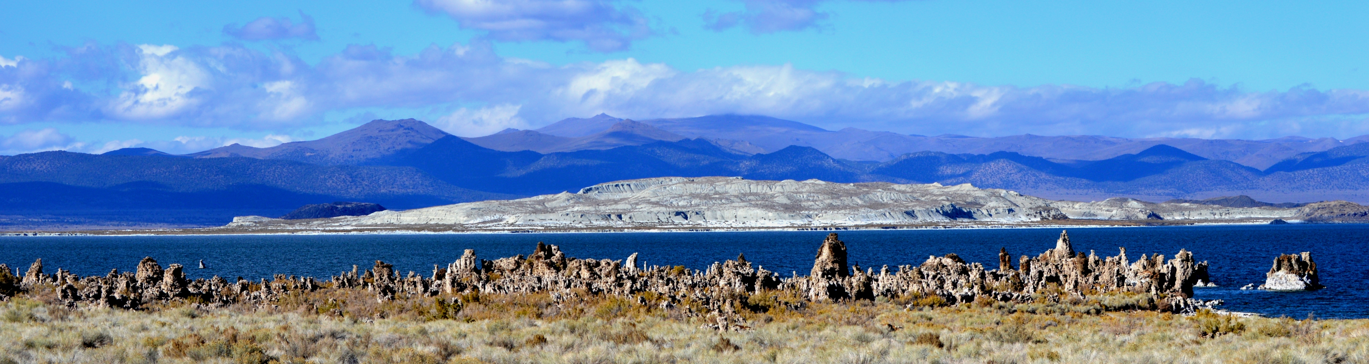 View from Mono Lake's "South Tufa" area. In the foreground (on the south shore) are tufa towers. The white formation that dominates the middle of the photo is Paoha Island, with Negit Island (smaller, black island on left) behind it. The low black hill on the other shore is Black Point. Mapcarta has an easy-to-understand view of the lake.